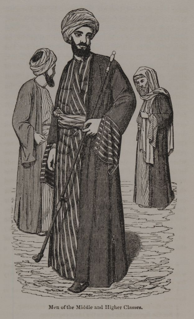 A man wearing a robe and turban holding a pipe with his left hand. Behind him are other men. Engraving (prints).